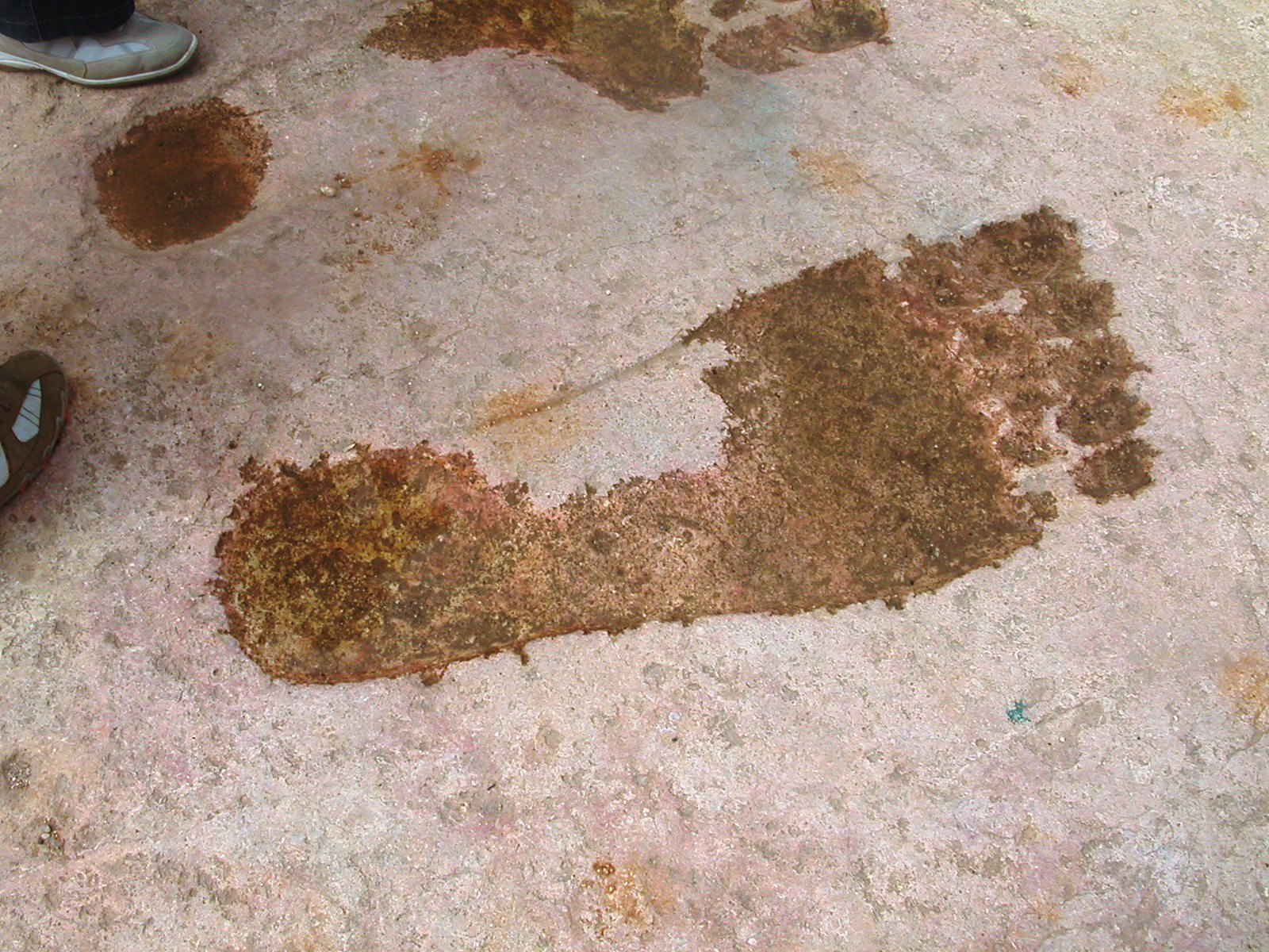 Large footprints cut out in the doorstep of the Ain Dara temple — Syria.